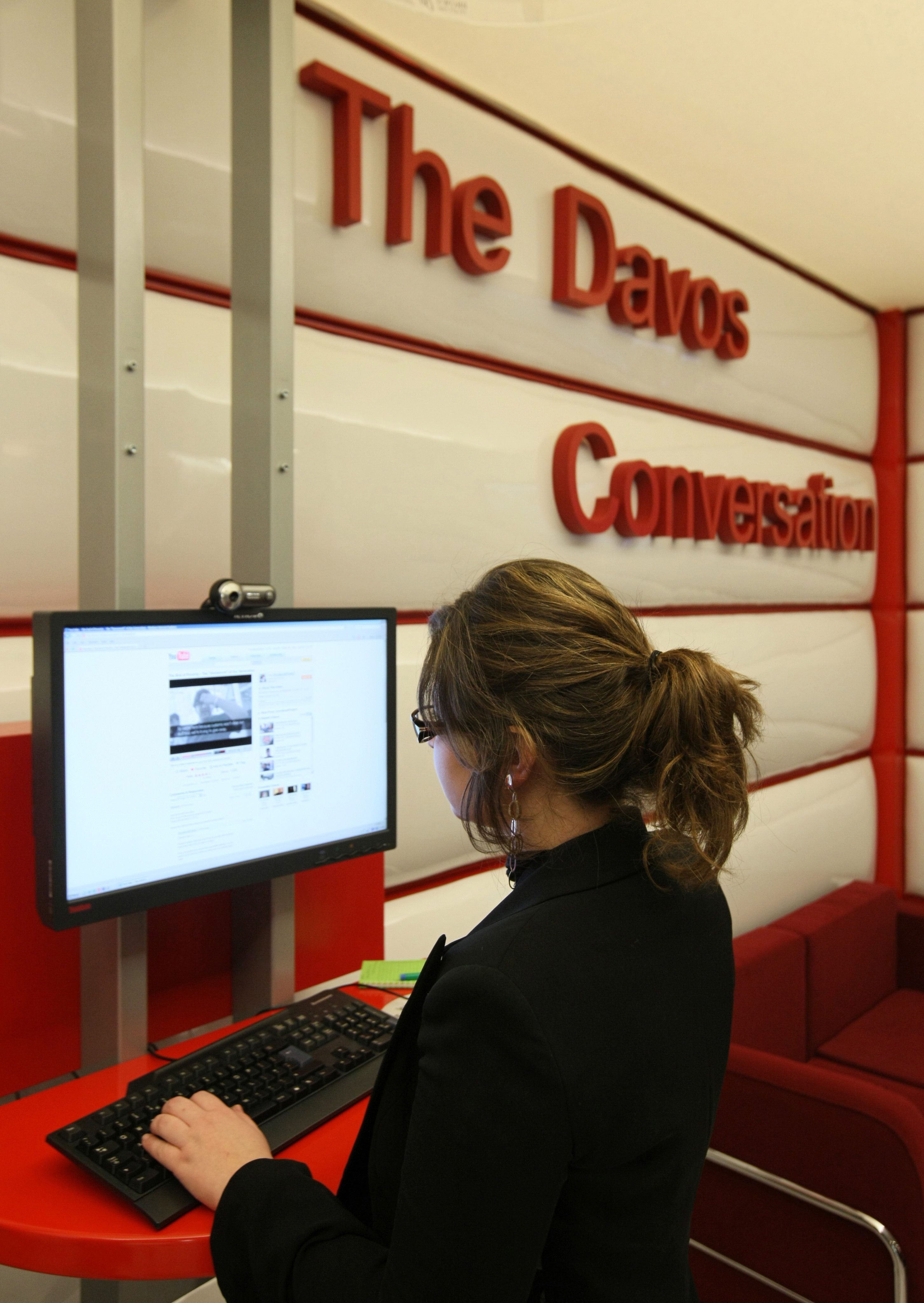 The Davos Conversation Corner run by YouTube at the Annual Meeting 2008 of the World Economic Forum in Davos, Switzerland, January 21, 2008.